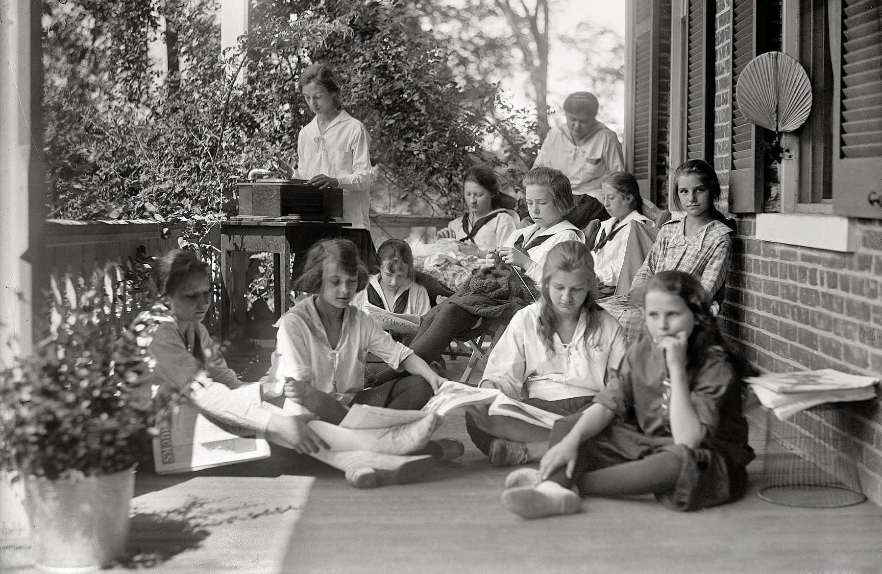 Girls attending a summer camp sponsored by the Young Women's Christian Association.